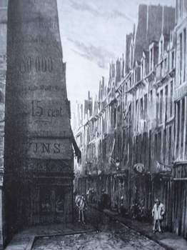 Represents rue Trousseau in Paris (11e arrondissement) at the end of the 19th century. This street was considered as one of the dirtiest street of Paris.